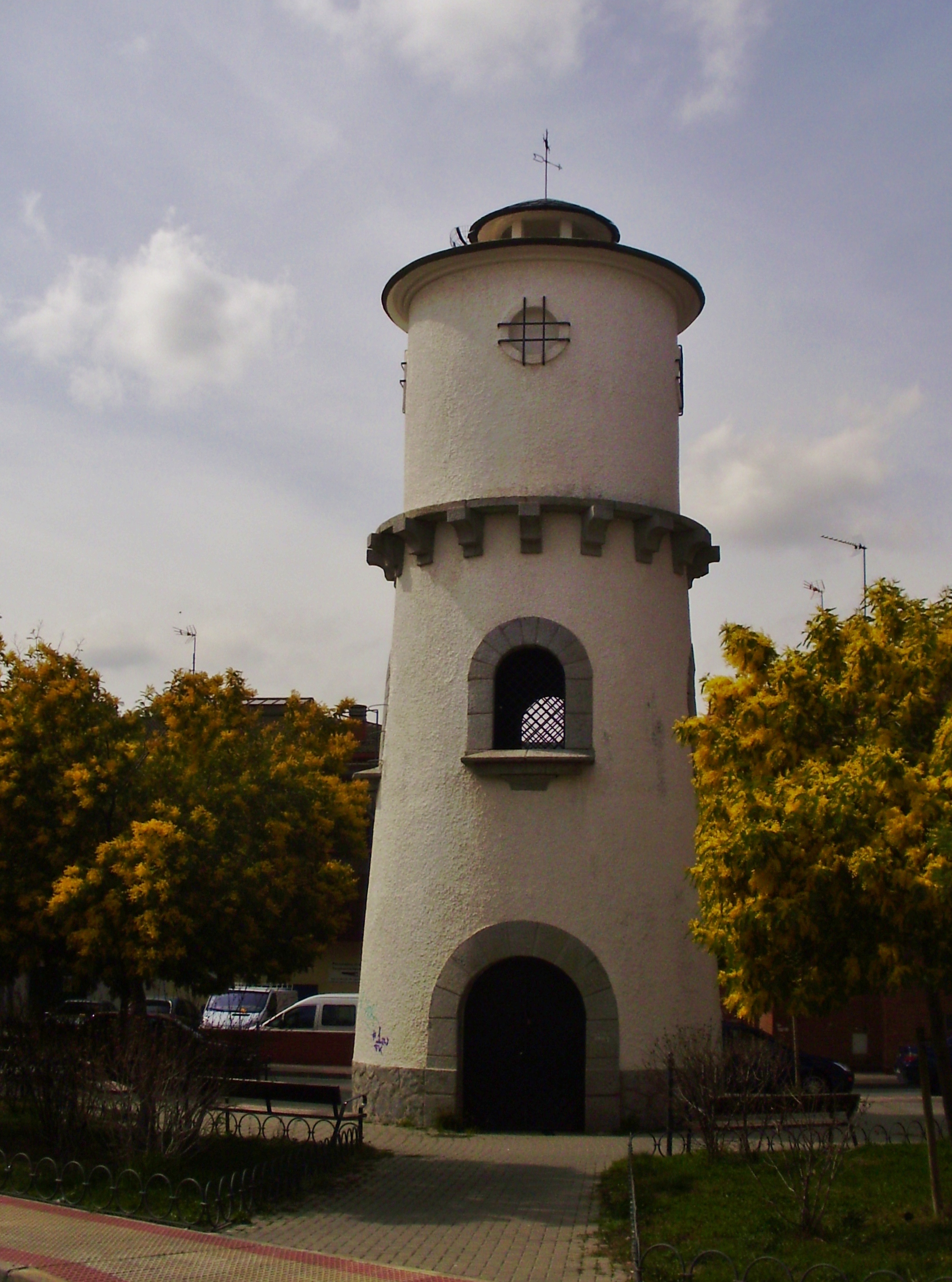 Old water tower in Villanueva del Pardillo (Spain).